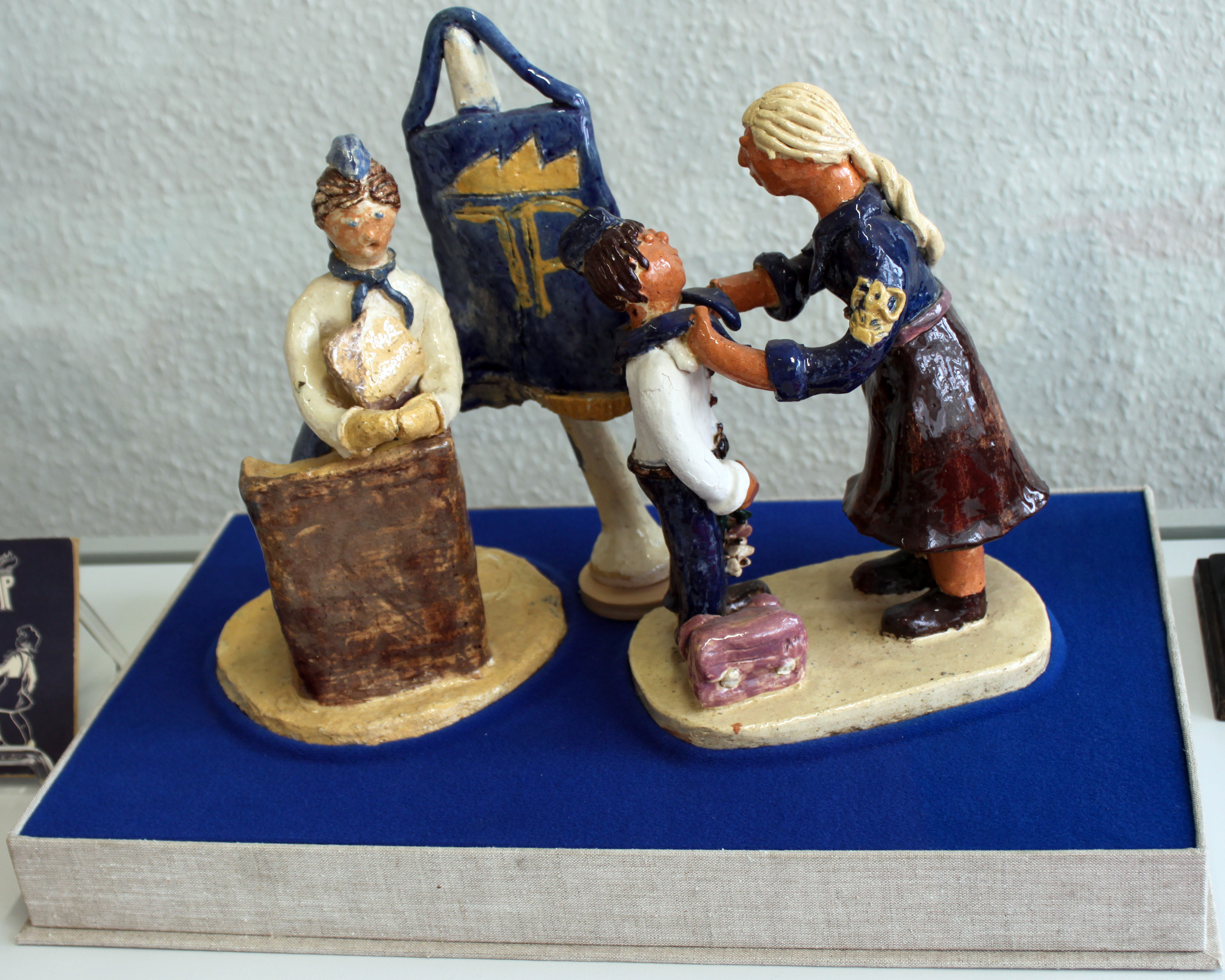 FDJ Figurine: "Young Pioneers", shown in the Stasi Museum in Berlin